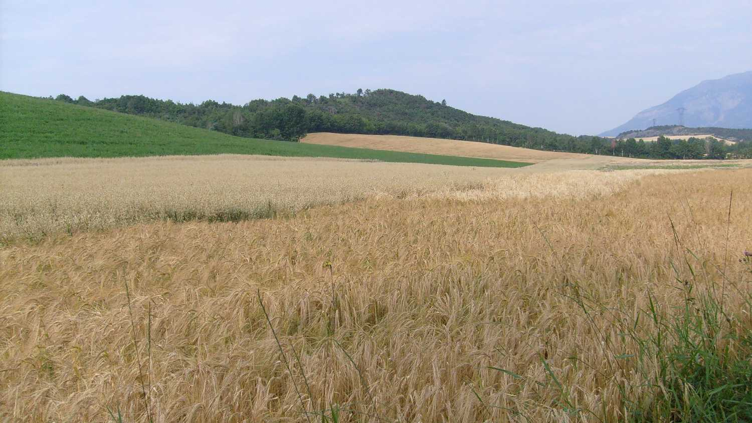 Agricultural landscape La Bâtie-Vieille( Hautes-Alpes, France)